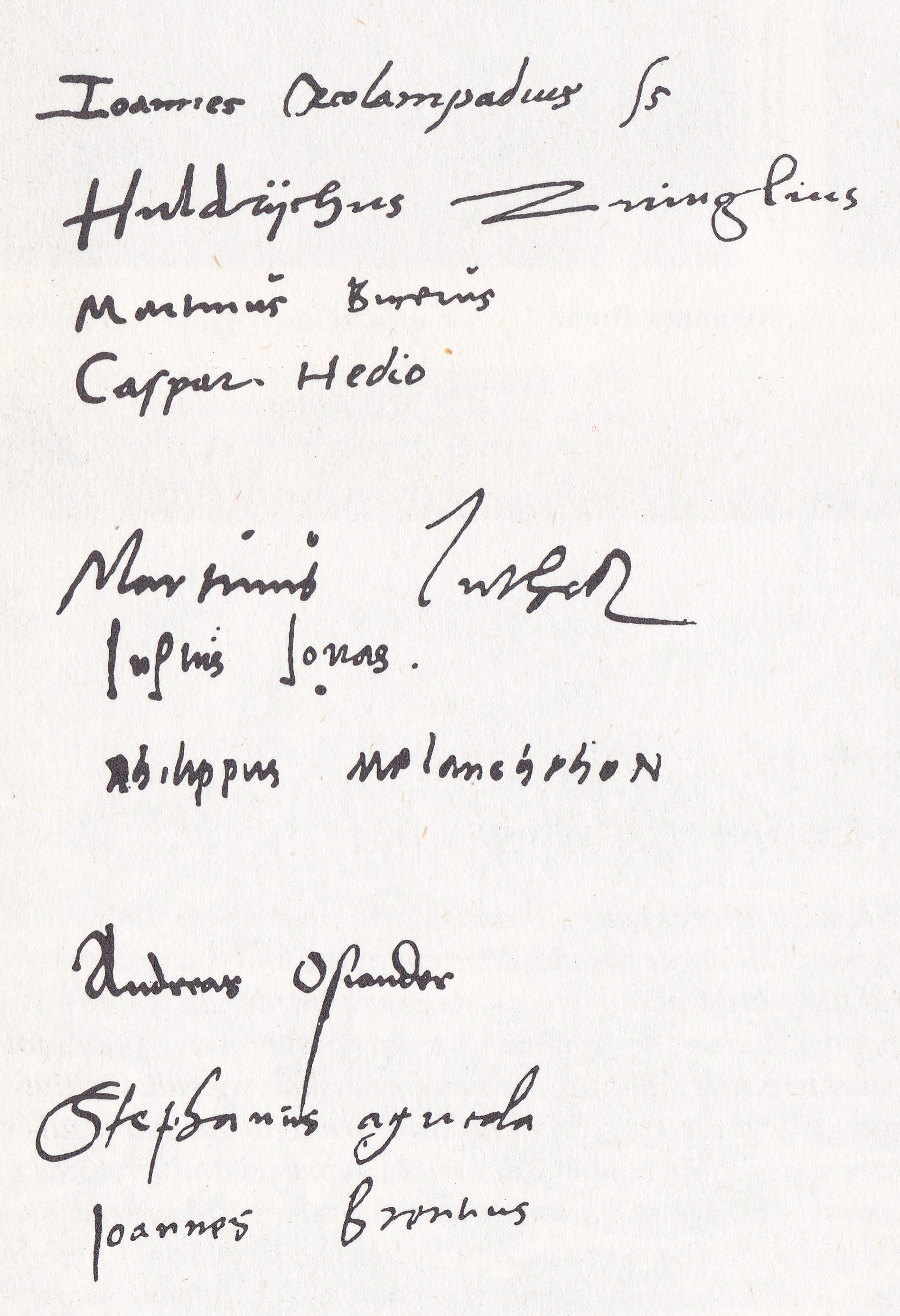 Signatures of the Marburg colloquy.